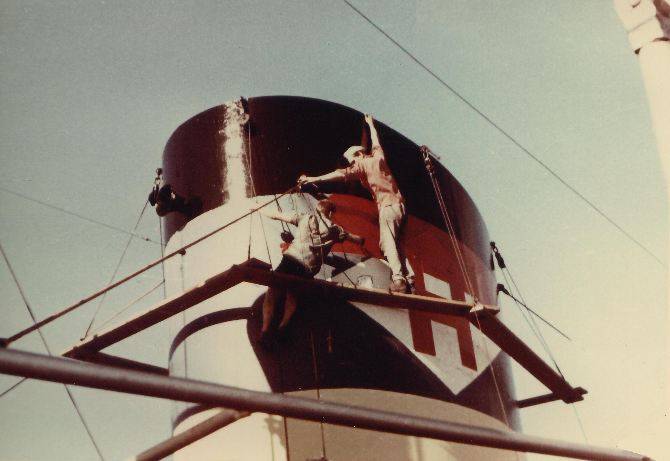 AB sailors work, the painting of chimney - 1957